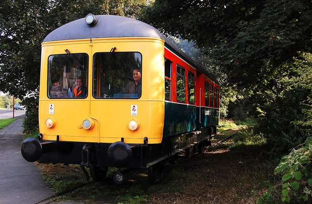 Leeds Middleton railway